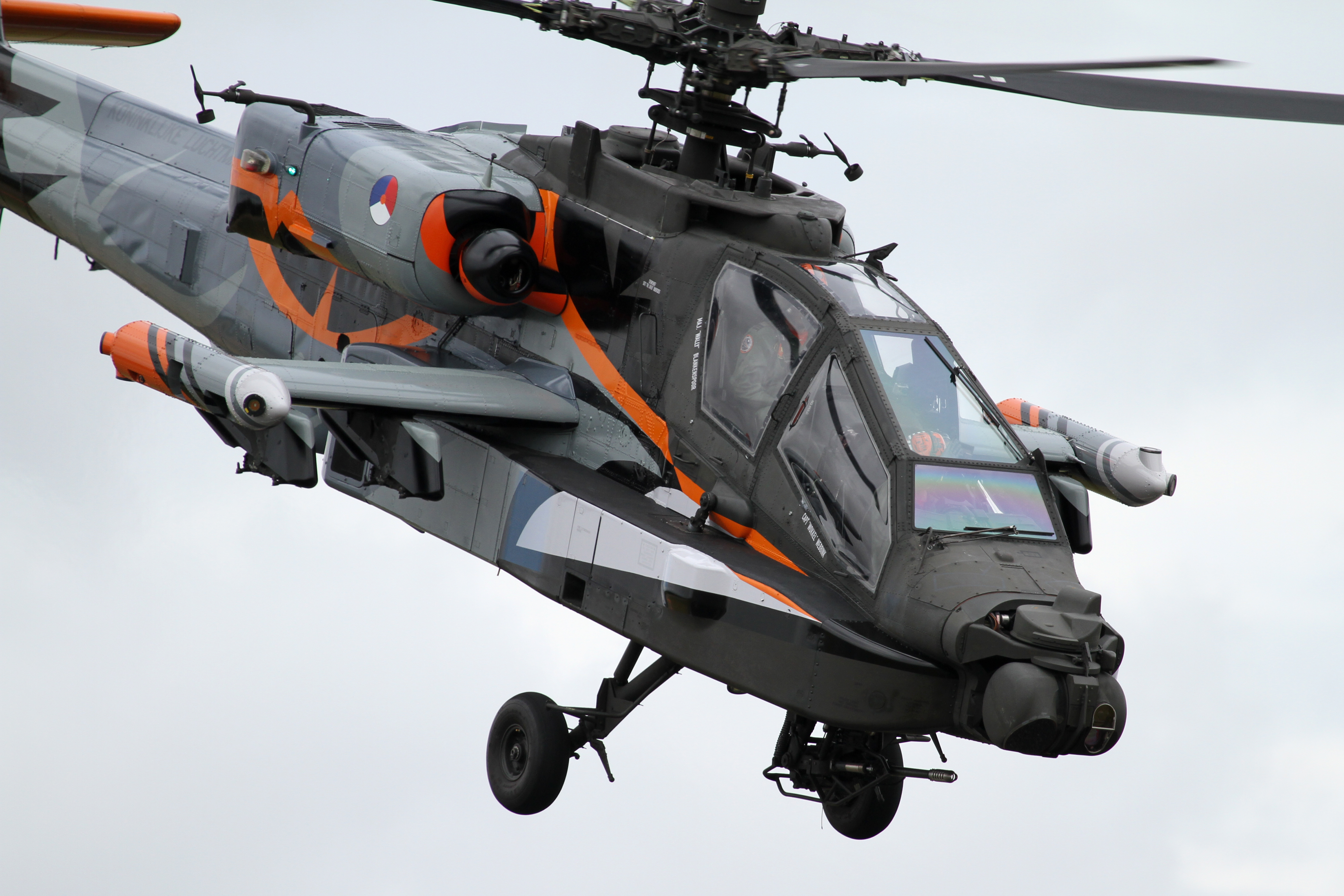 RIAT 2011